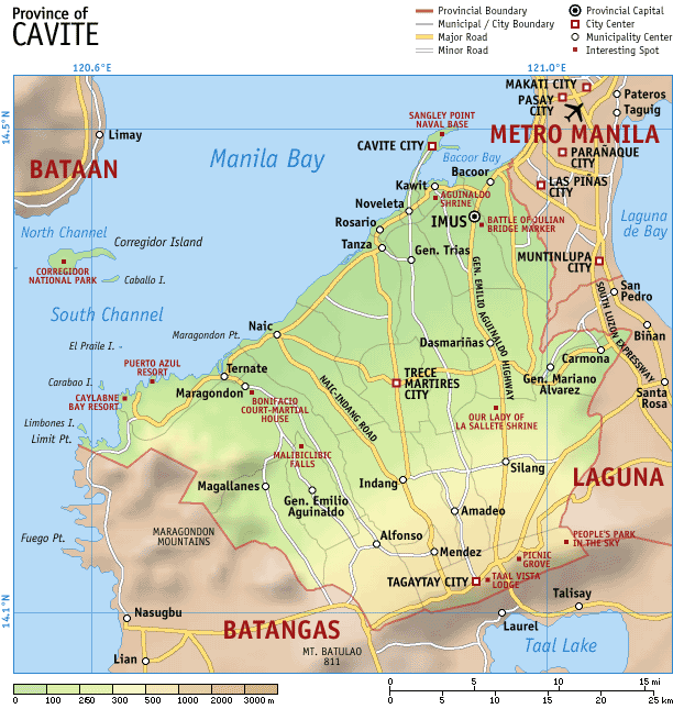 Map of the province of Cavite, Philippines. It is a topographic map showing the municipalities and cities, major and minor roads, and notable places of interest. Created and copyright (2003) by seav. Released under the GNU FDL.